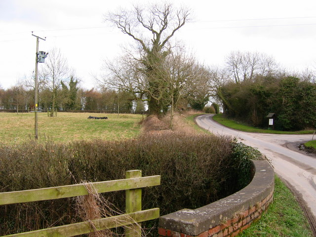 Little Kelk, East Riding of Yorkshire, England.Looking east from near the entrance to Kelk Lake House. Little Kelk Farm is on the west edge of the grid square.